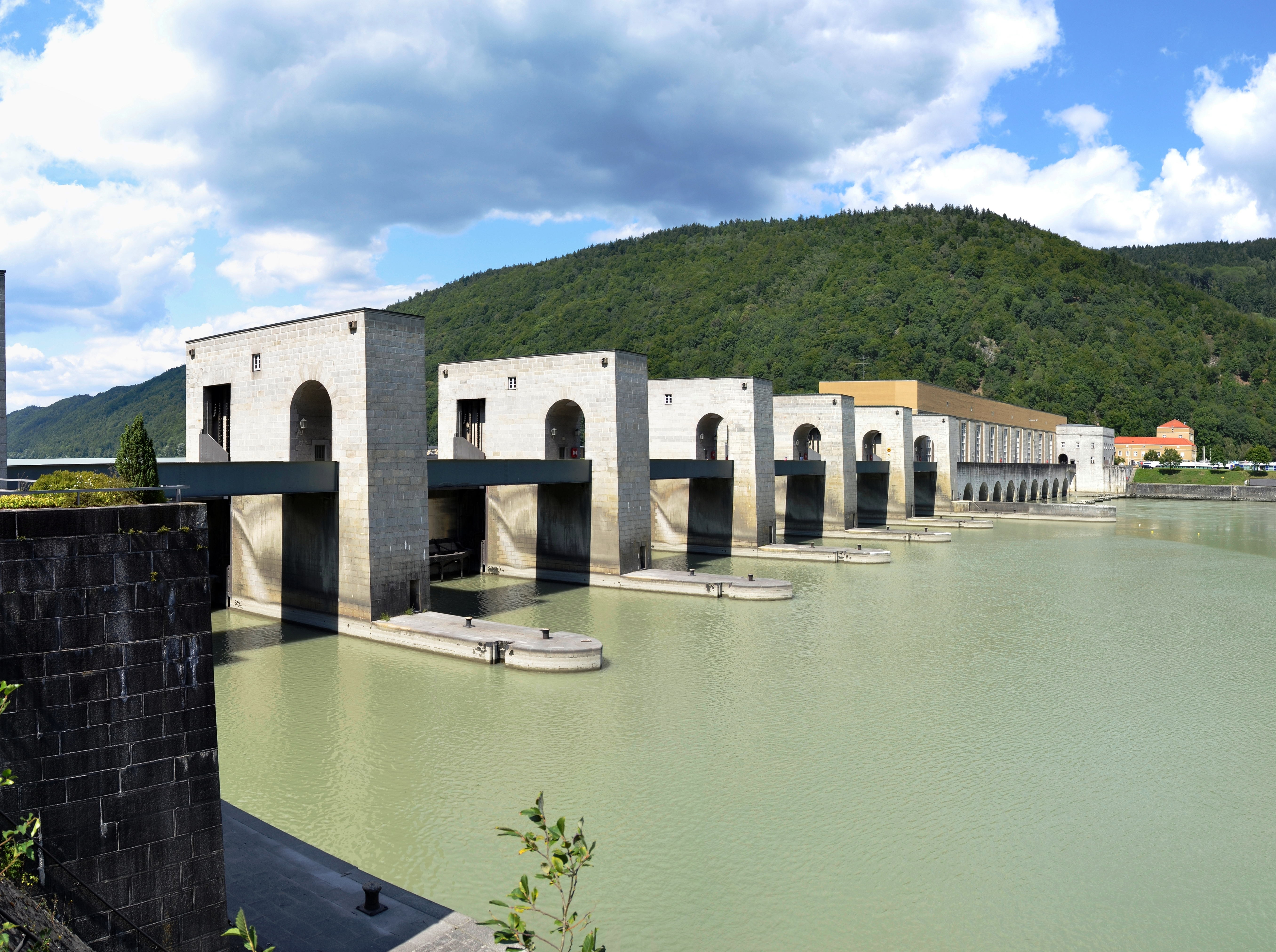 The Jochenstein run-of-the-river hydroelectricity plant.